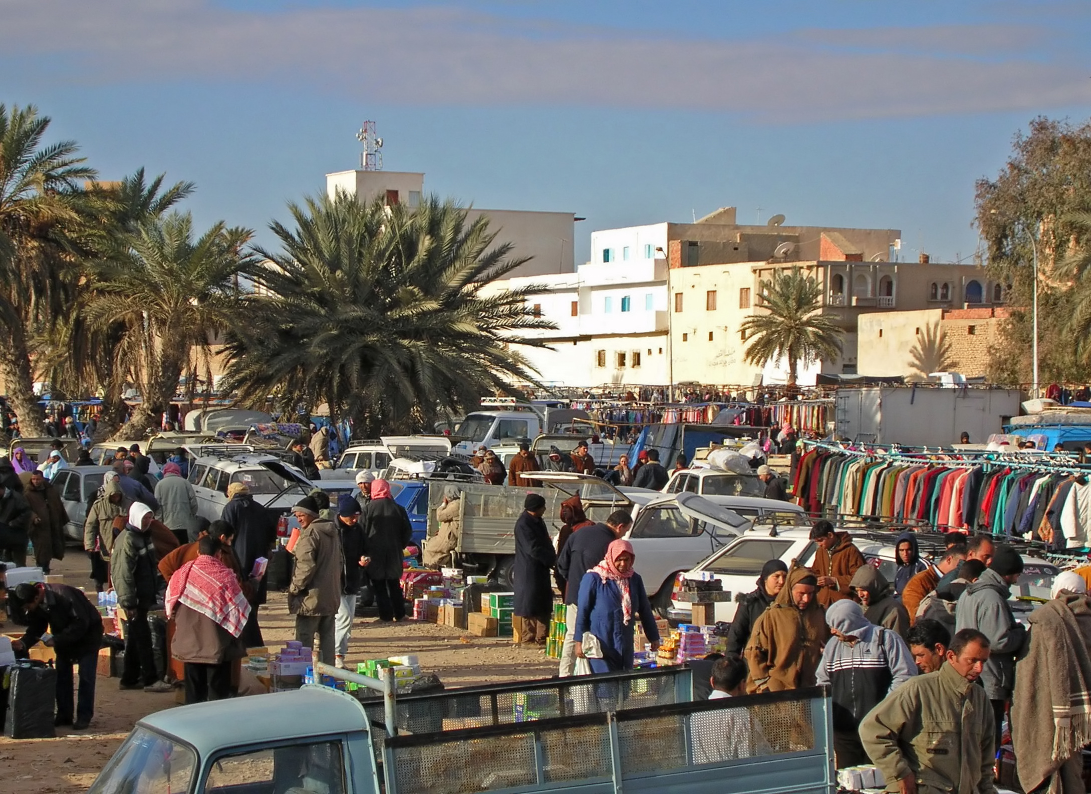 Market of Medenine, Tunisia